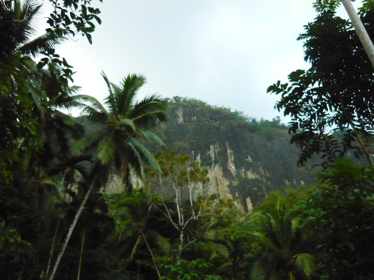 Pahiyangala